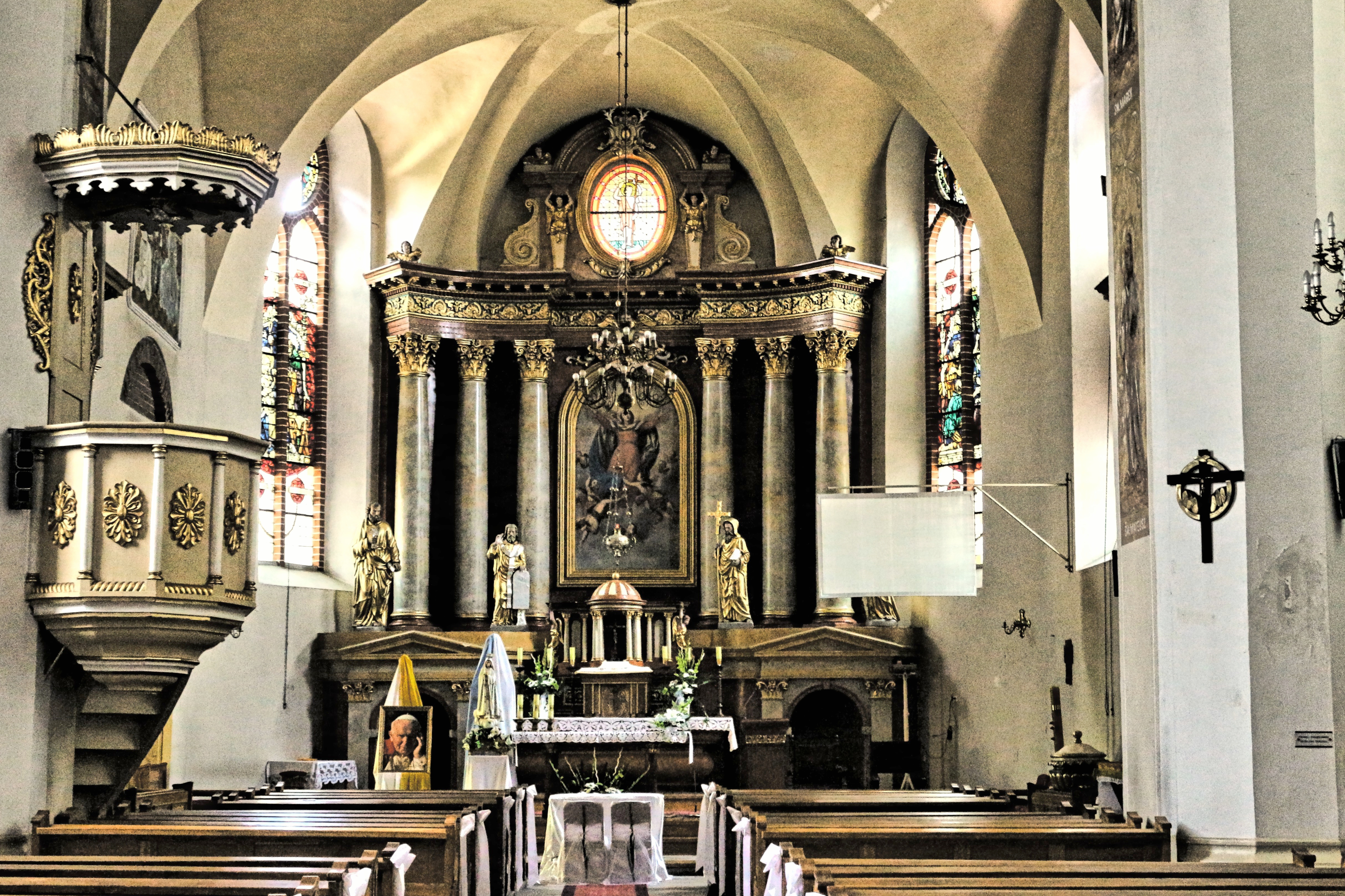 The interior of the church of Virgin Mary in Śmigiel